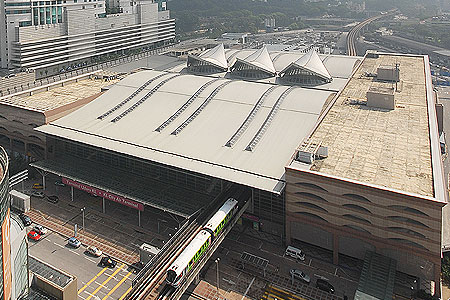 Main Hub at Kuala Lumpur